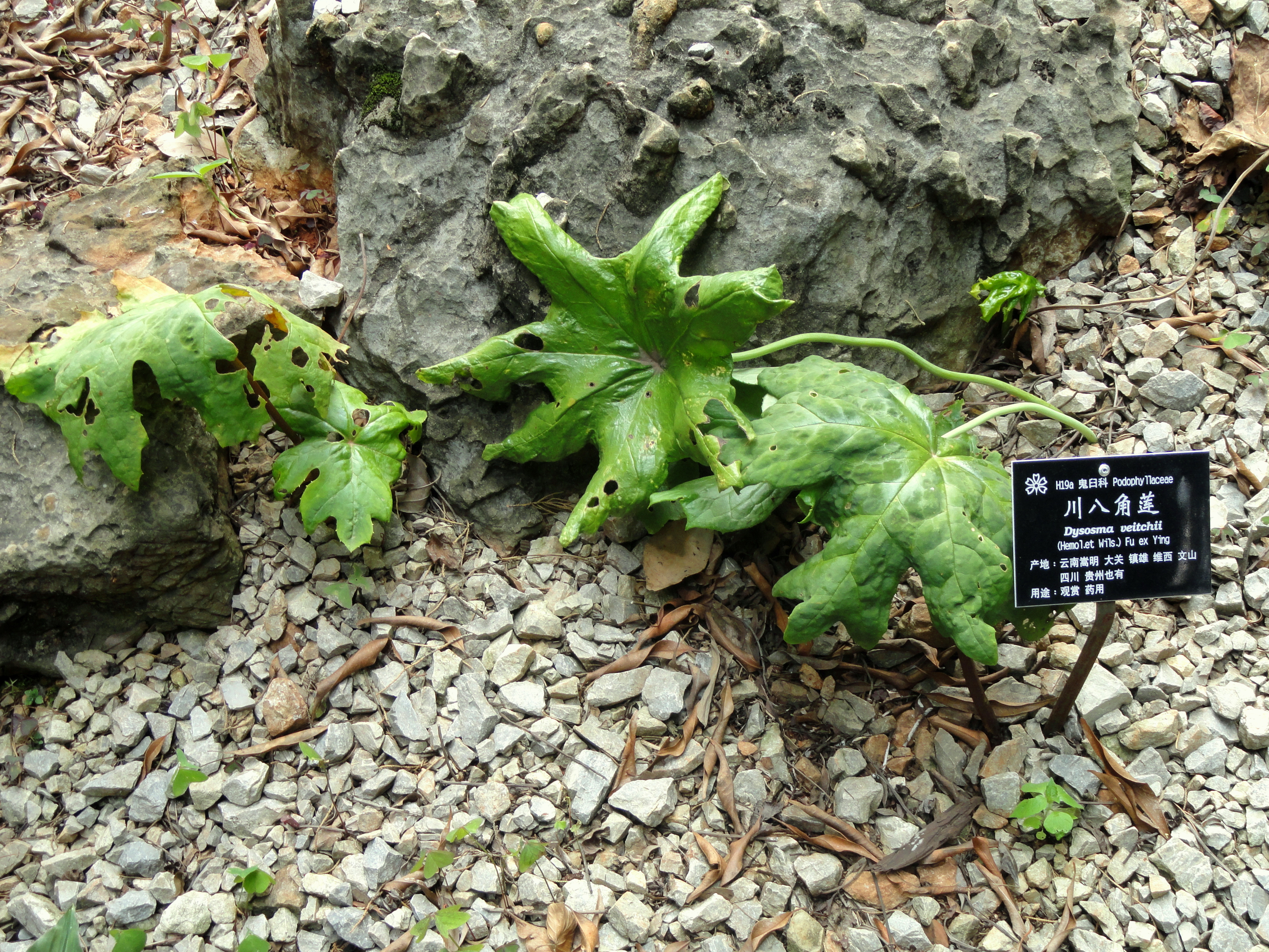 Plant specimen in the Kunming Botanical Garden, Kunming, Yunnan, China.